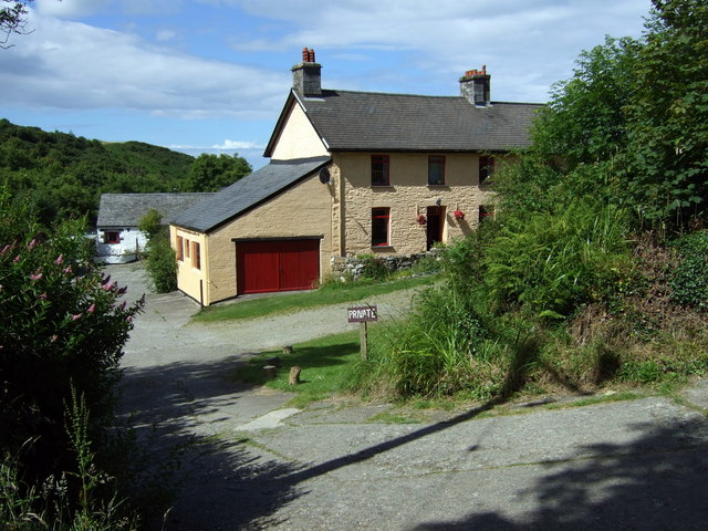 Fforest Farm No longer a farm, the memory of the past lives on in a poem by the Anglo-Welsh poet Gillian Clarke whose grandmother lived here, in the house above the bay. "It was our job at Fforest to feed the hens with cool and liquid handfuls of thrown corn. We looked for eggs smuggled in hedge and hay, and walked together the narrow path to the sea calling the seals by their secret names." From: Cofiant, in Letting in the Rumour by Gillian Clarke, 1989